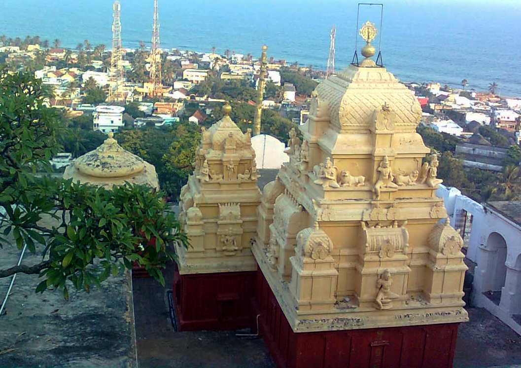 View of Narasimha Swamy Temple from Pavurallakonda Hill at Bheemunipatnam, Andhra Pradesh